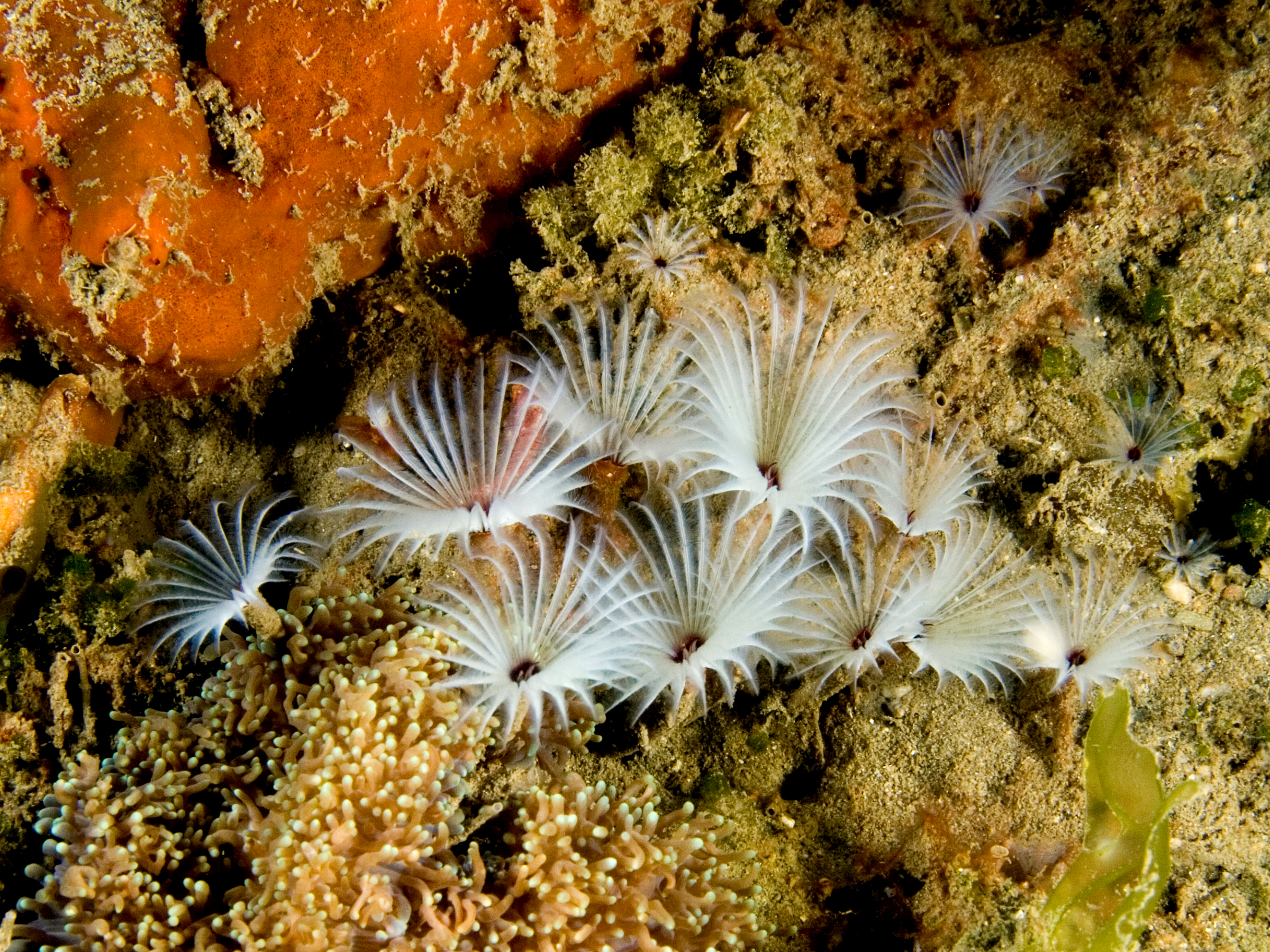 Polychaeta_Sabellidae_(Tubeworms) Timor